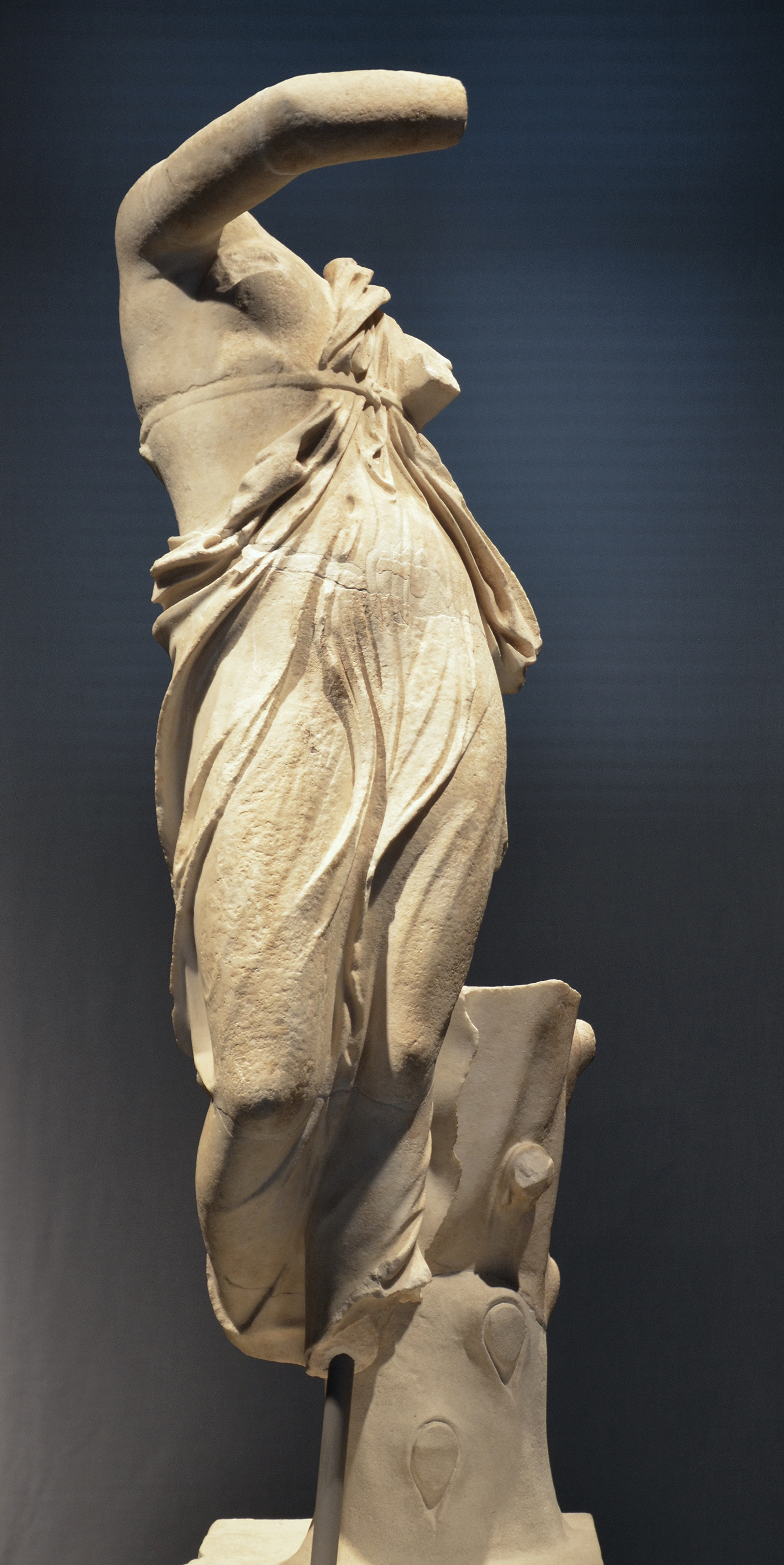 Dancing female figure, thought to be a portrait of Praxilla of Sikyon (a Greek lyric poet), from the portico of the Triclinium of the Three Exedras at Hadrian's Villa, 117 - 138 AD, Palazzo Massimo alle Terme, Rome